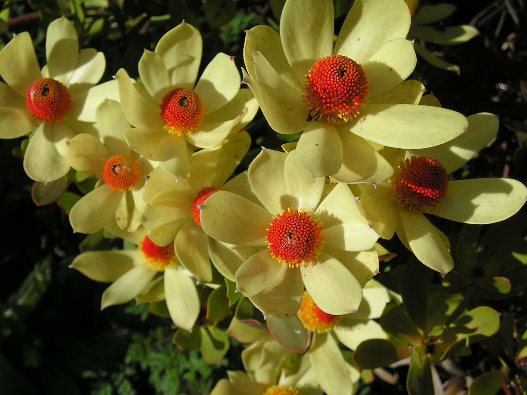 Unknown Leucadendron from San Francisco Botanical Garden, Golden Gate State Park, San Francisco .